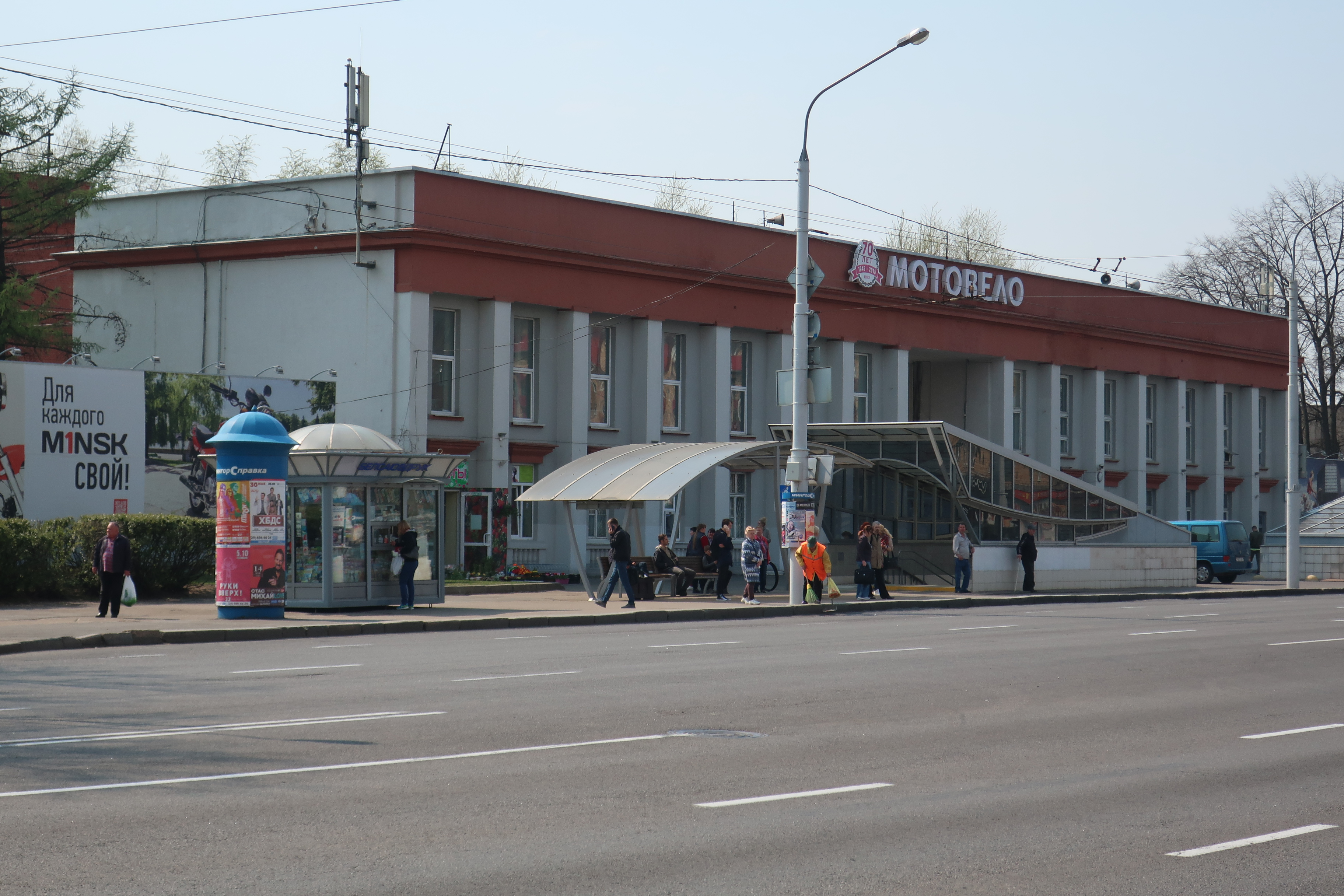 Bike & motorcycle factory (Minsk, Belarus)